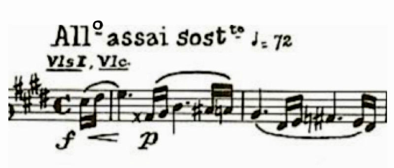 Score fragment from the overture of Giuseppe Verdi's 1849 opera Luisa Miller